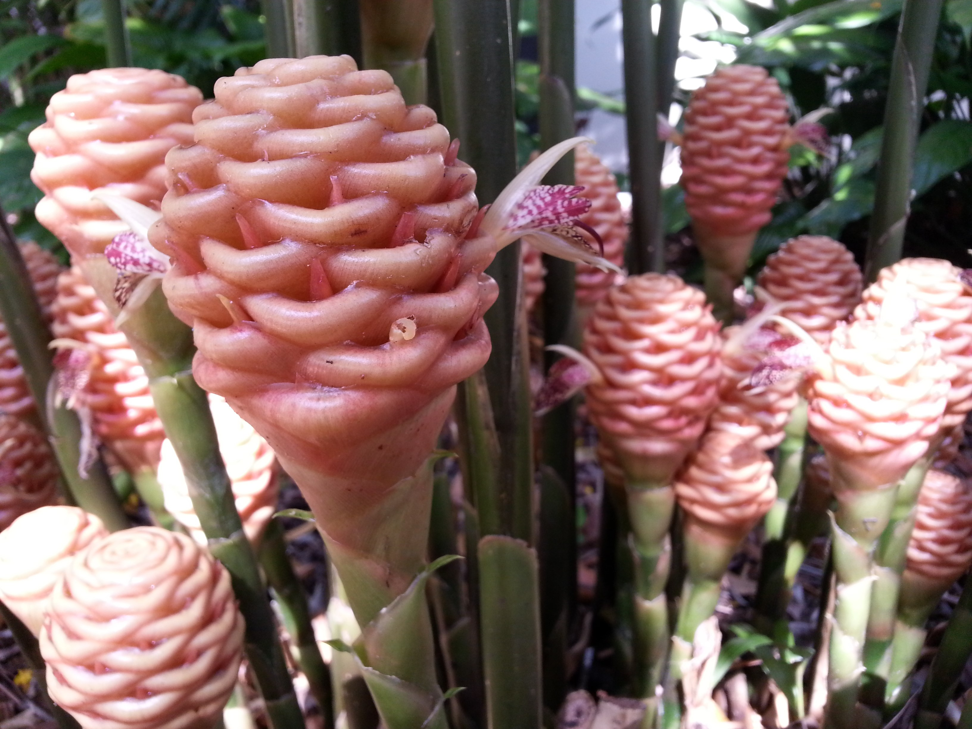 Zingiber spectabile (beehive ginger) photographed in Yandina, Queensland.